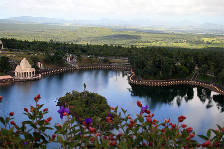 Ganga Talao Lake in Mauritius